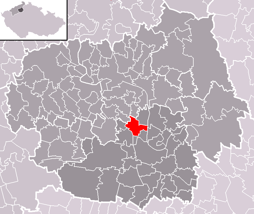 Location of Hrobce municipality within Litoměřice District and administrative area of Roudnice nad Labem as a Municipality with Extended Competence.